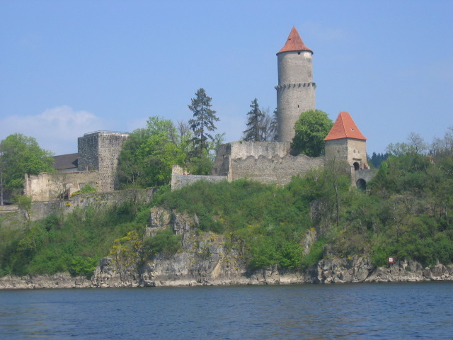 Castle Zvíkov (district Písek, Czech Republic, South Bohemian Region)